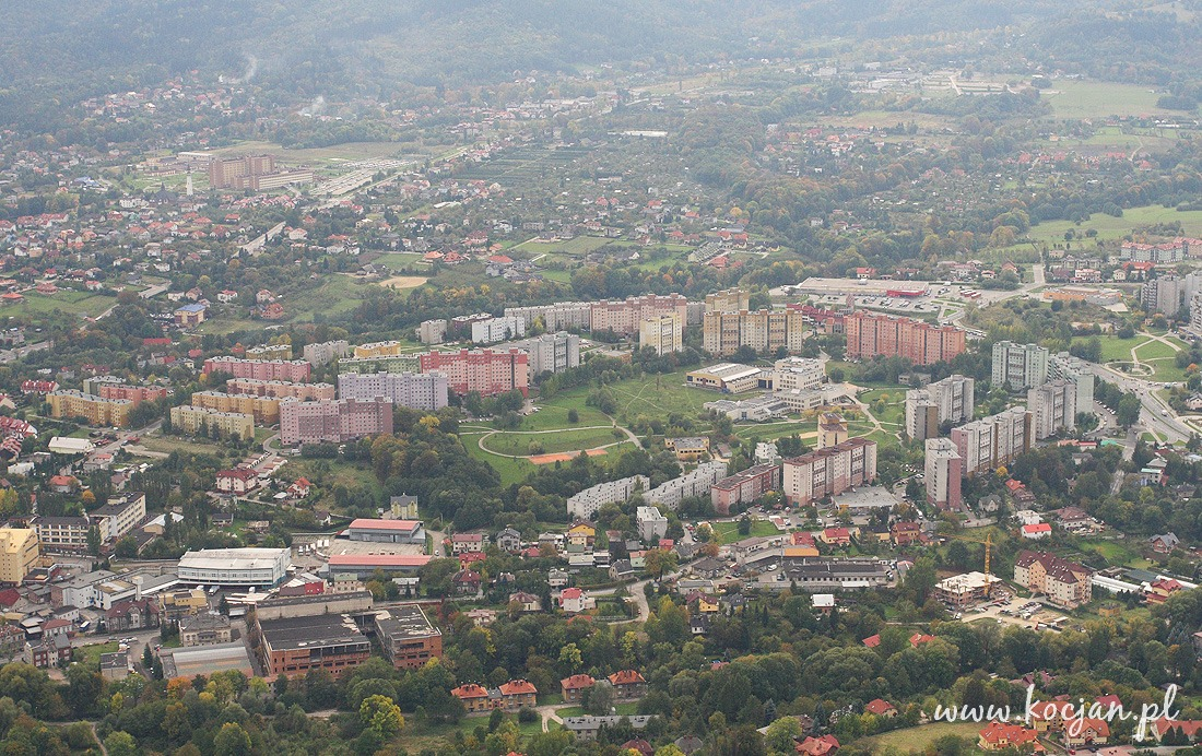 Aerial photography of east part of Kamienica - district of Bielsko-Biała, Poland.